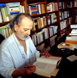 Aldo Rescio, psychoanalist